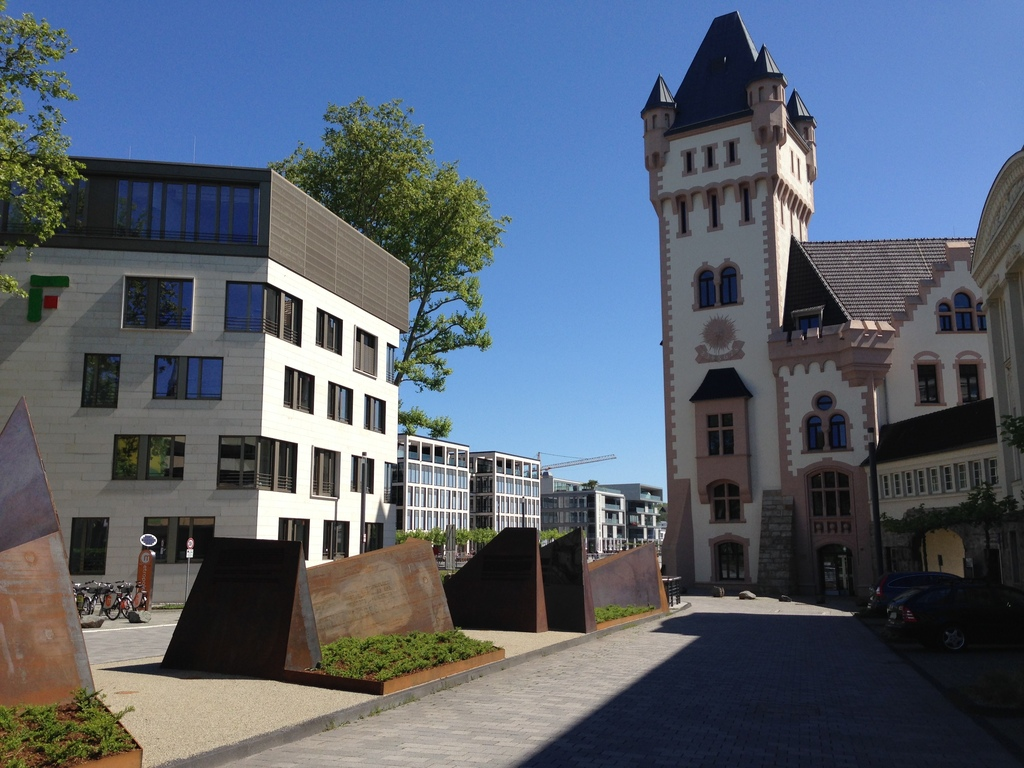 Lake Phoenix Square